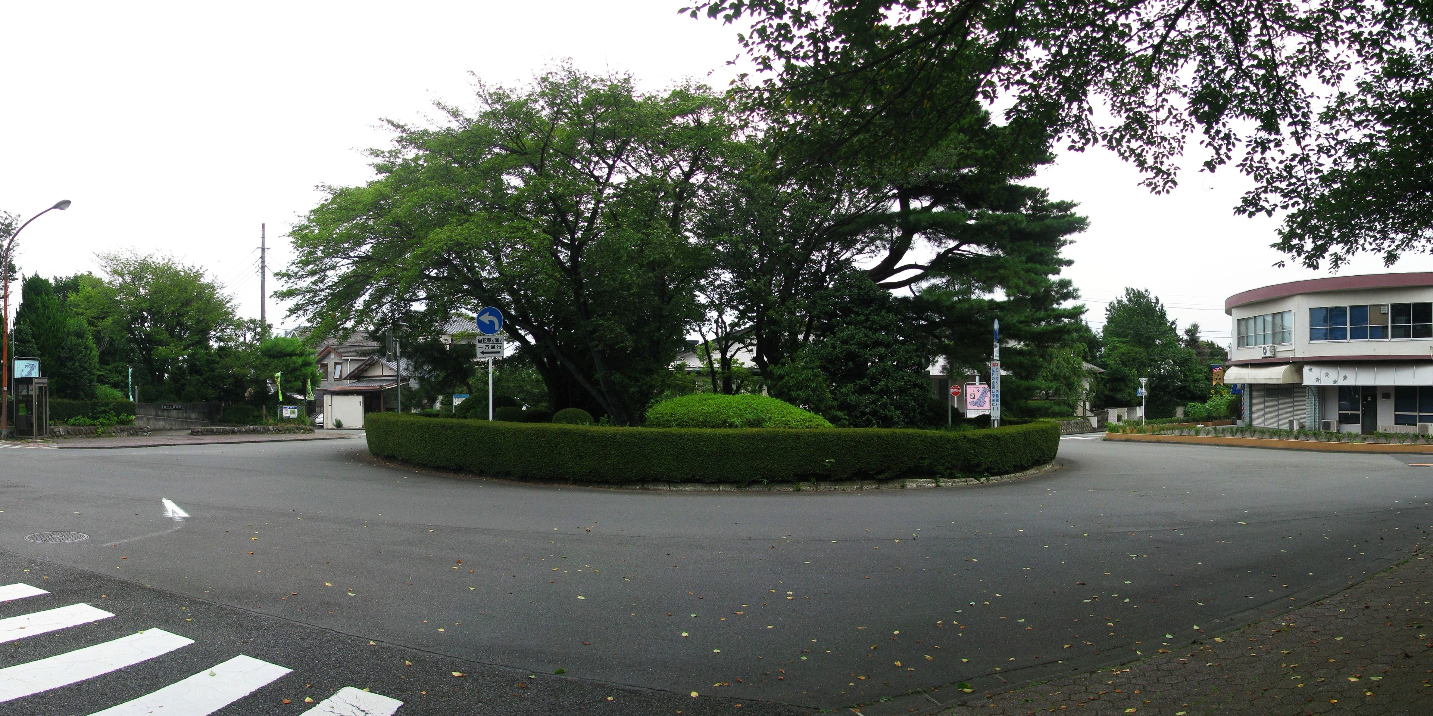 This location is Sakura-ga-oka in Tama, Tokyo, Japan.